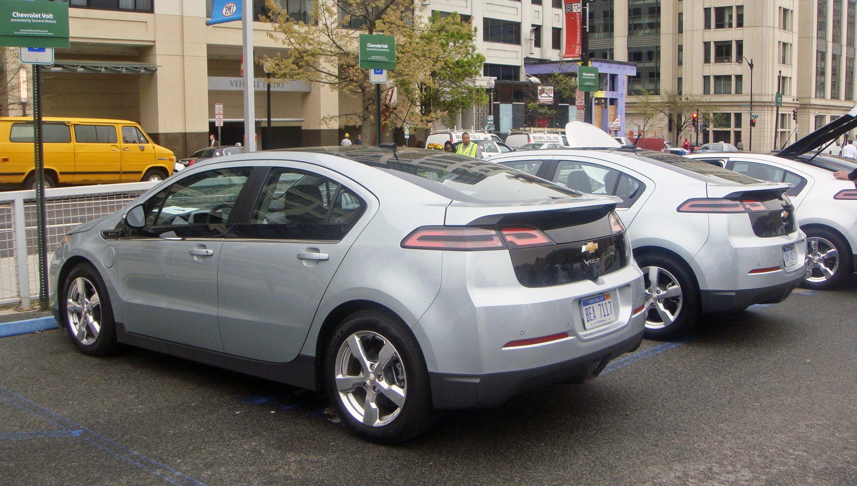 Chevrolet Volt at the Ride, Drive & Charge event organized by the EDTA, downtown Washington, D.C.